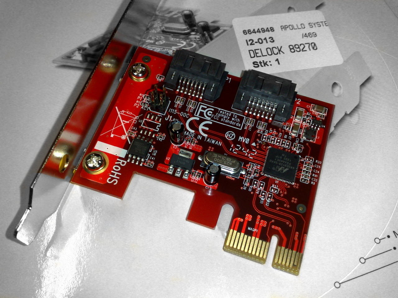 SATA 3.0 (6 Gbit/s) host bus adapter (HBA), based on the Marvell 88SE9128 controller, in form of a PCI Express ×1 expansion card. Its RAID functionality is provided through proprietary firmware and drivers.